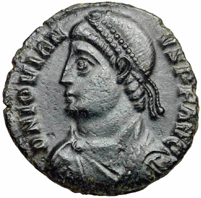 From Rasiel's Roman Imperial Type Set